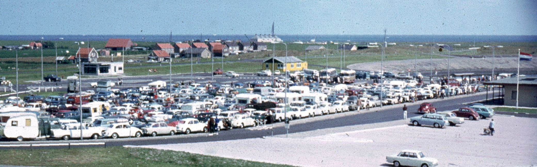 Cars waiting in 't Horntje (Texel, Netherlands) for the ferry to Den Helder, Netherland Photo from 1968 [the filename is wrong, sorry]